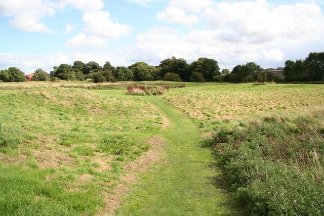 Sleaford Castle earthworks: Earthworks and scant remains of Sleaford Castle, built between 1123 and 1139 by Bishop Alexander of Lincoln as a base for the Bishop’s estates in Sleaford and surrounding area. King John spent one of the last nights of his life here after the loss of his baggage train and jewels in the Wash in October 1216. The castle'’s decline to its current state began in the 16th century.